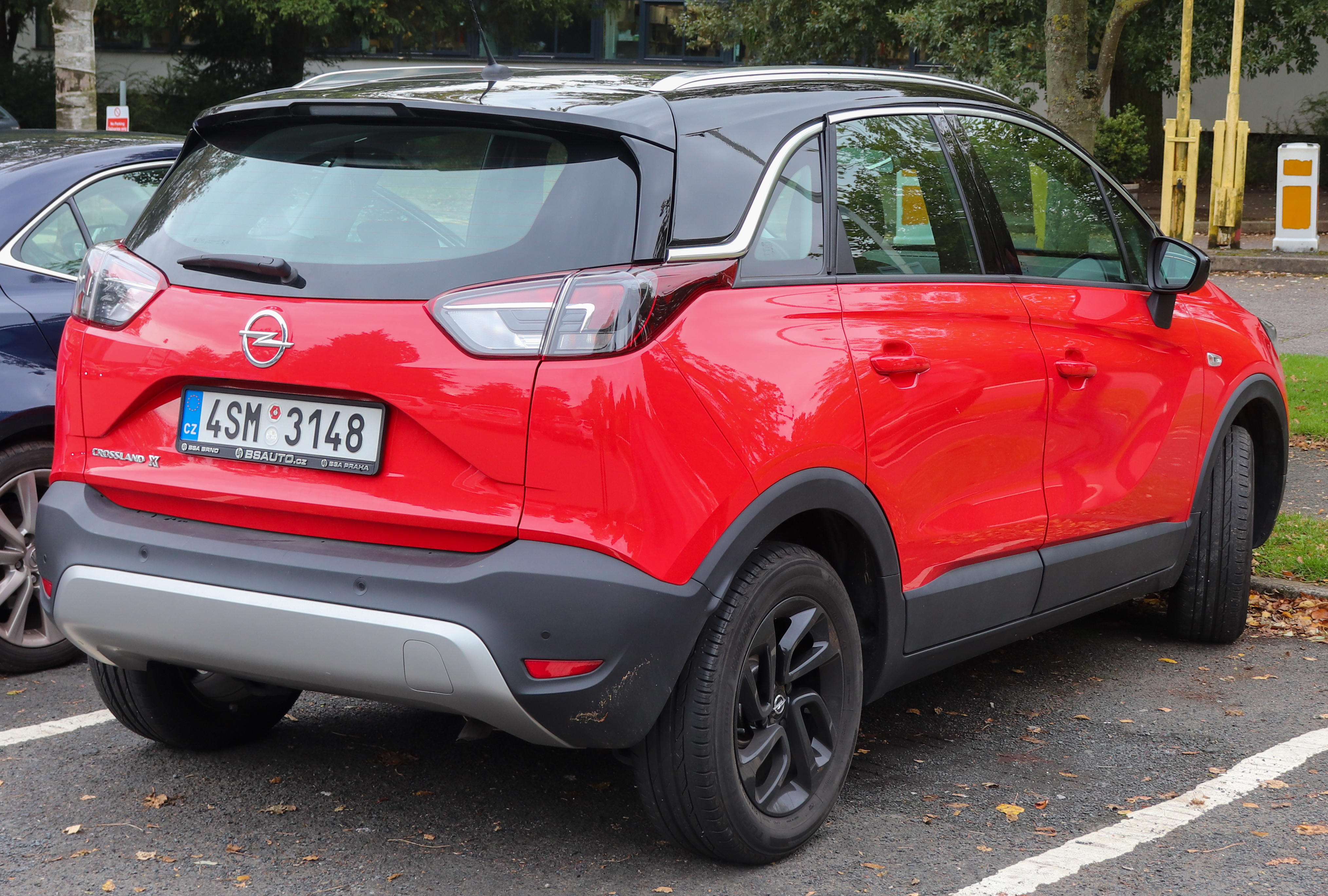 2019 Opel Crossland X Rear Taken in Leamington Spa